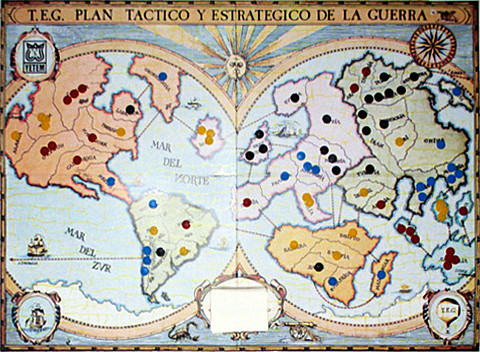 People playing TEG.